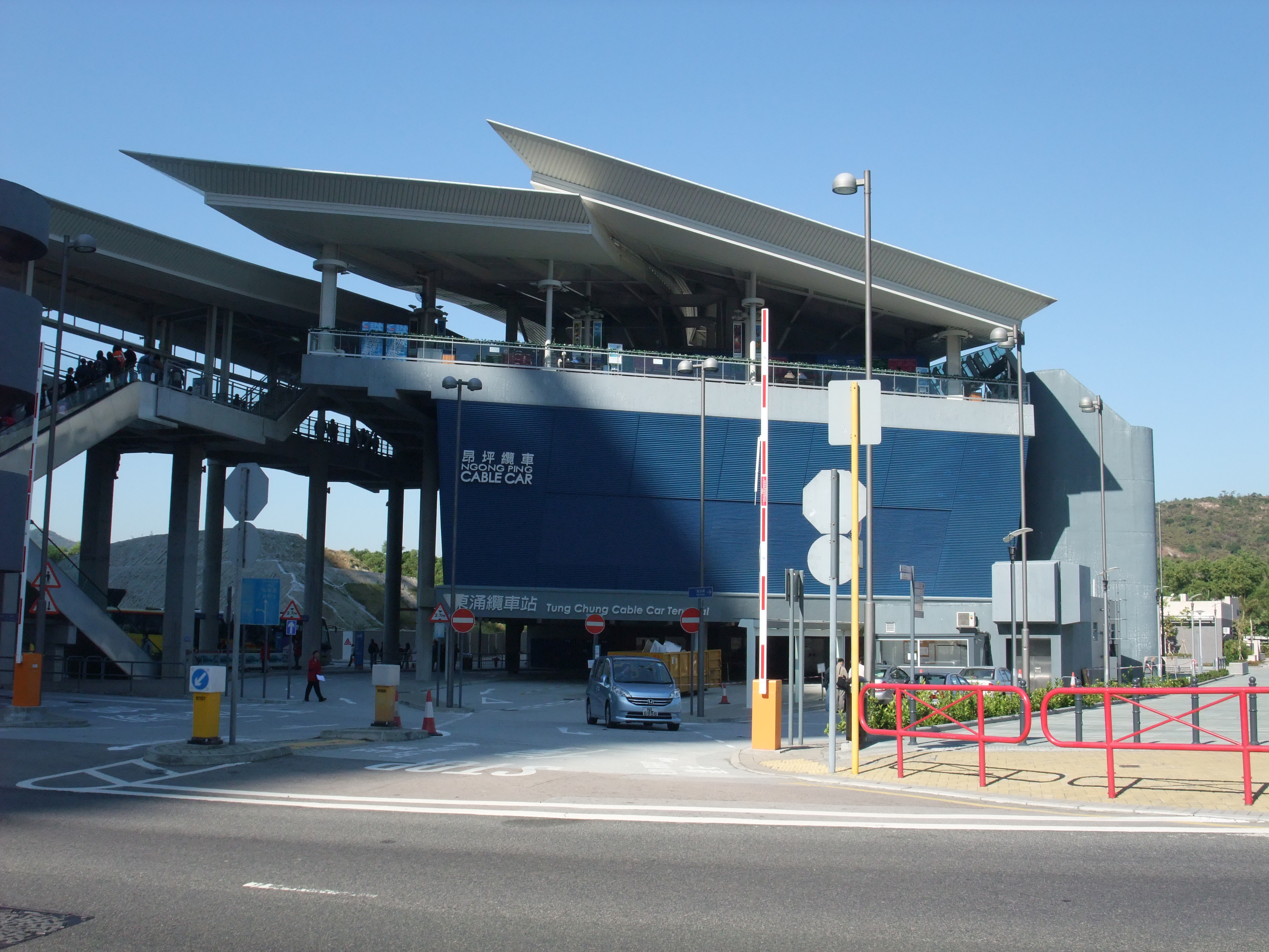 Photo of Tung Chung Terminal